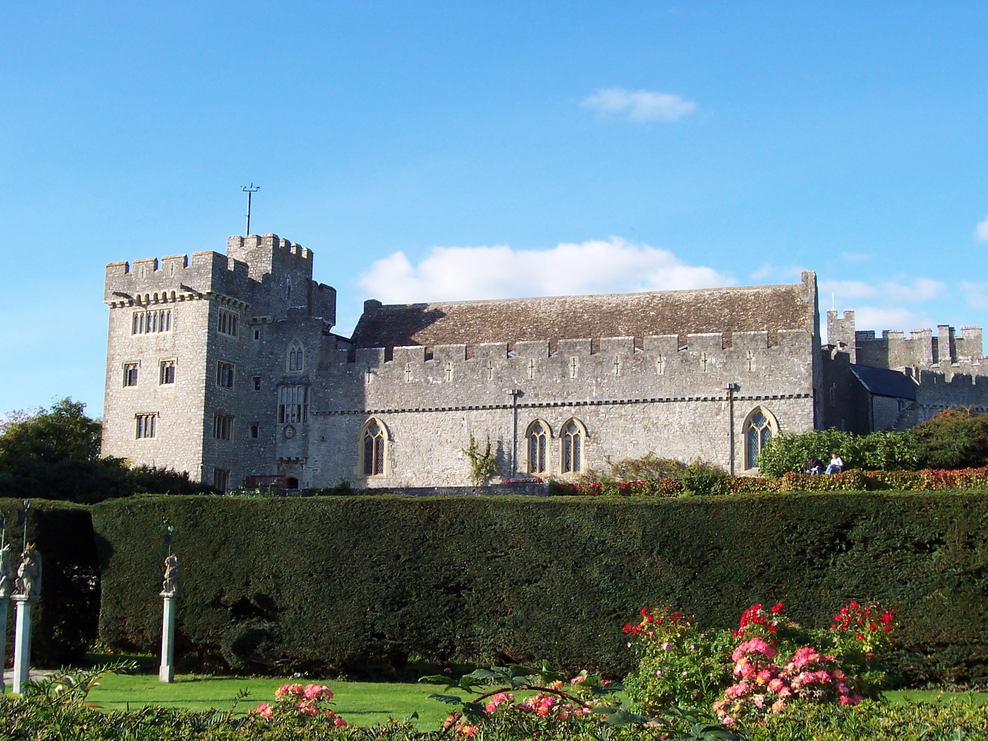 Atlantic College. Atlantic College is located at St Donat's Castle, a 12th century castle near the town of Llantwit Major on the South Wales coast, overlooking the Bristol Channel.